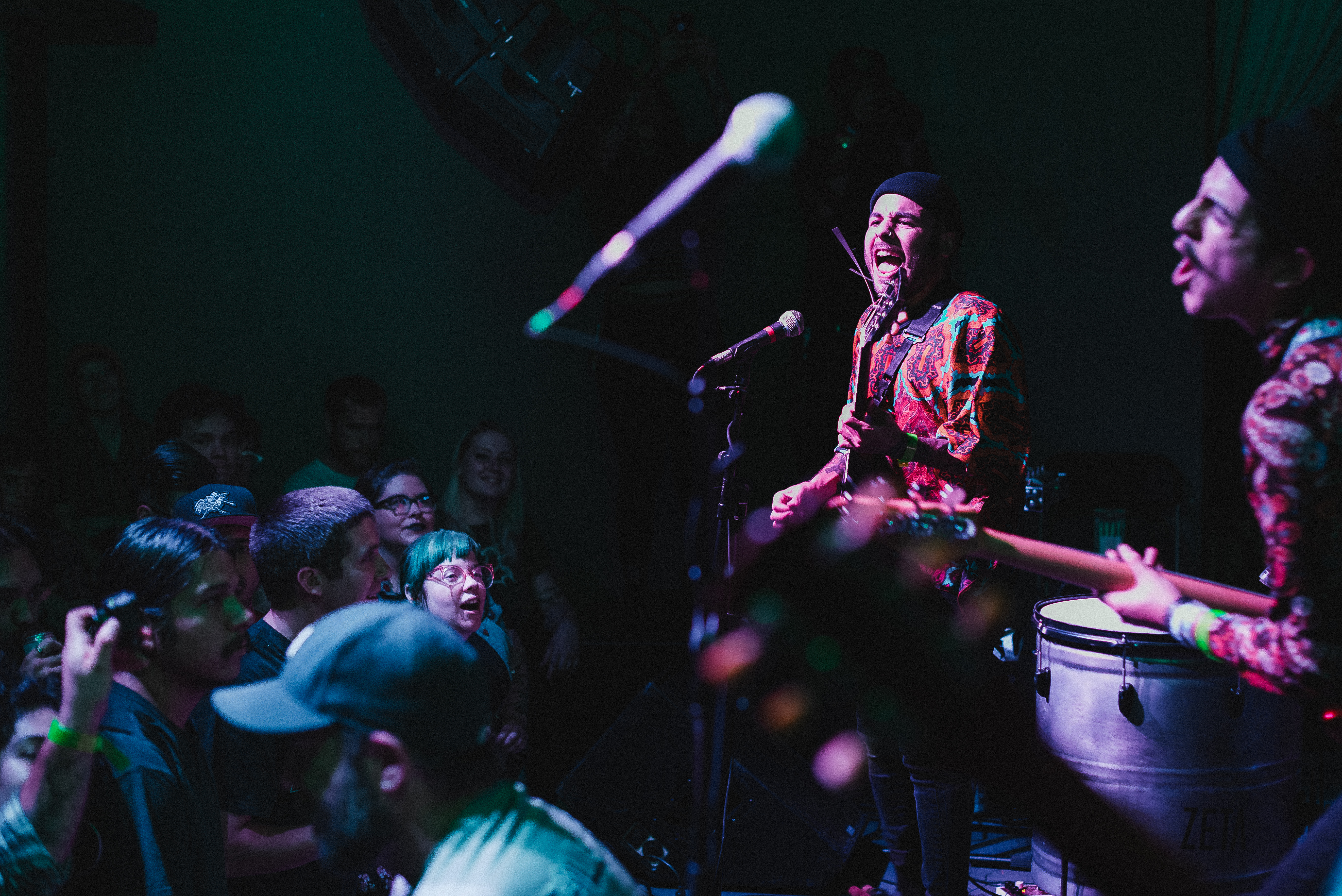 Live performance at The Fest , band ZETA , lead guitar Daniel Eduardo Hernandez Saud , bass player Gabriel Alejandro Quintero Duque